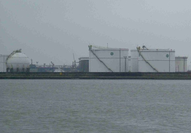 Coryton Oil and Gas Tanks. Coryton oil storage tanks photographed from Canvey Island. The Grid Reference is for the spherical tank on the left